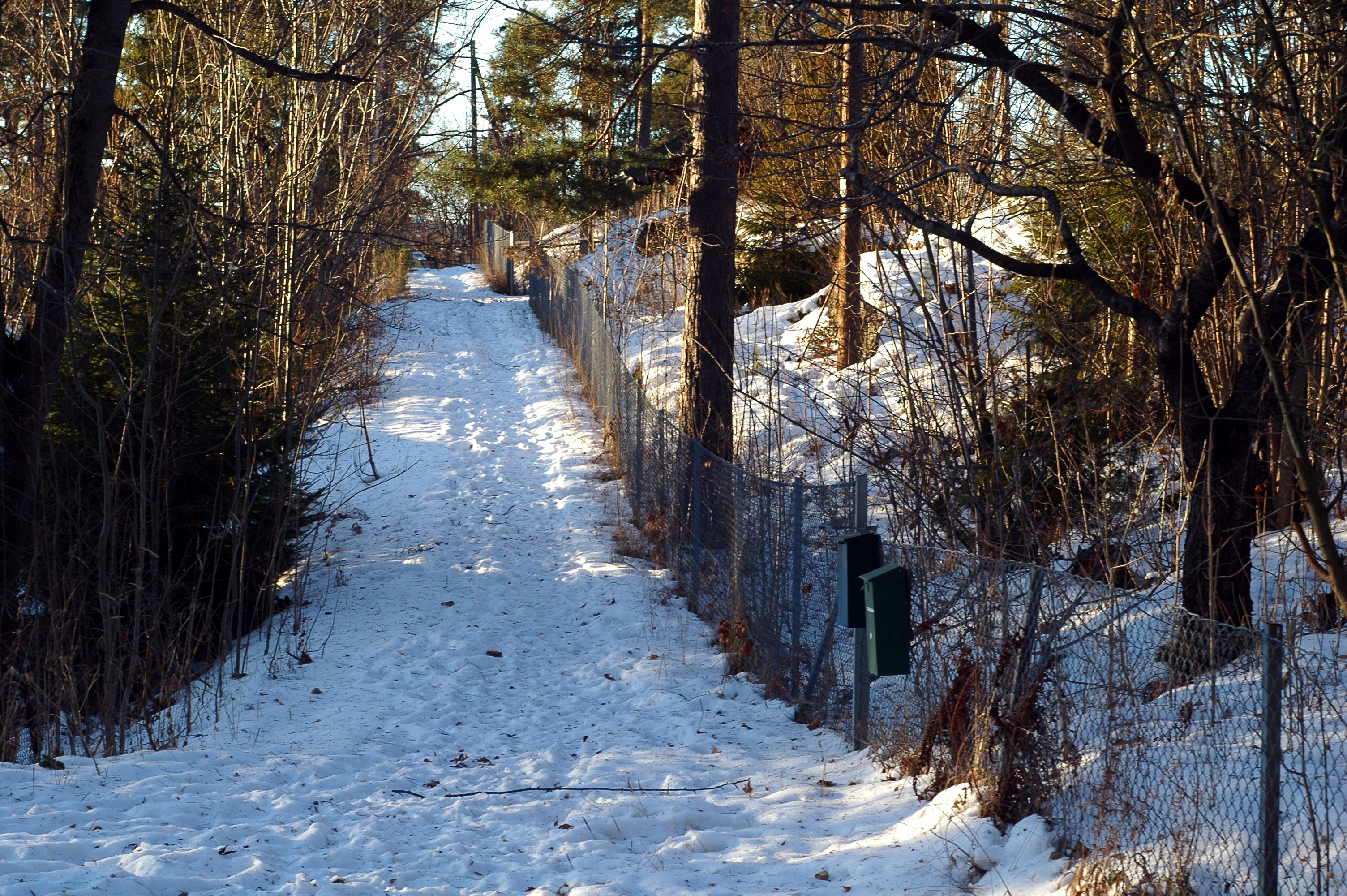 Residential area on Brønnøya.